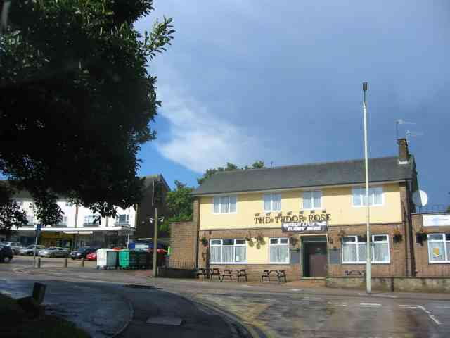 The Tudor Rose Pub at Chaulden , Hemel Hempstead, Hertfordshire , UK. A pub purpose built in 1957 for the development of Hemel Hempstead New Town. The name celebrates the towns connection to Henry VIII who gave the town it's first charter.